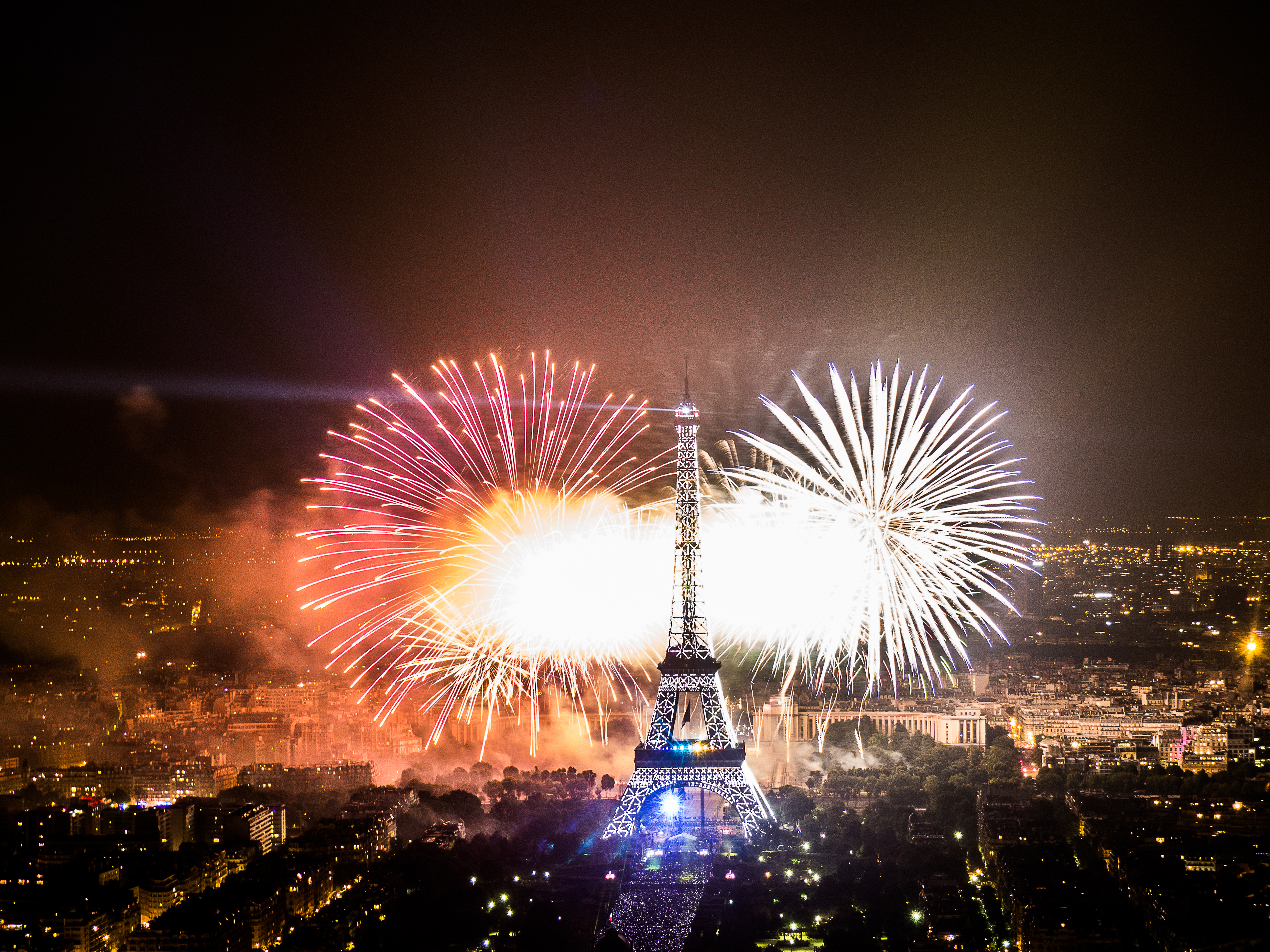 Fireworks on Eiffel Tower as seen from the Montparnasse Tower, July 14, 2013.